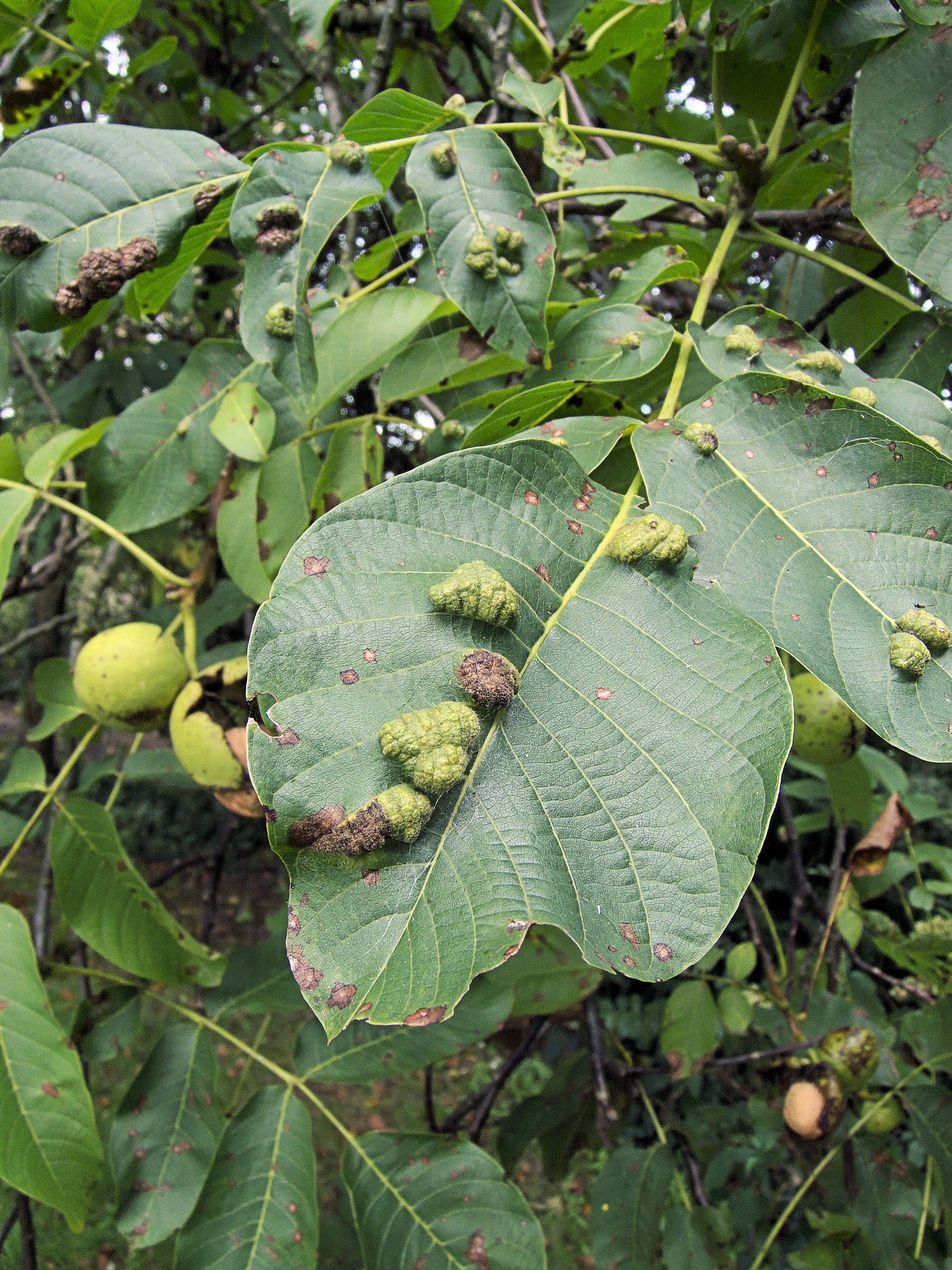 Aceria erinea on Juglans regia